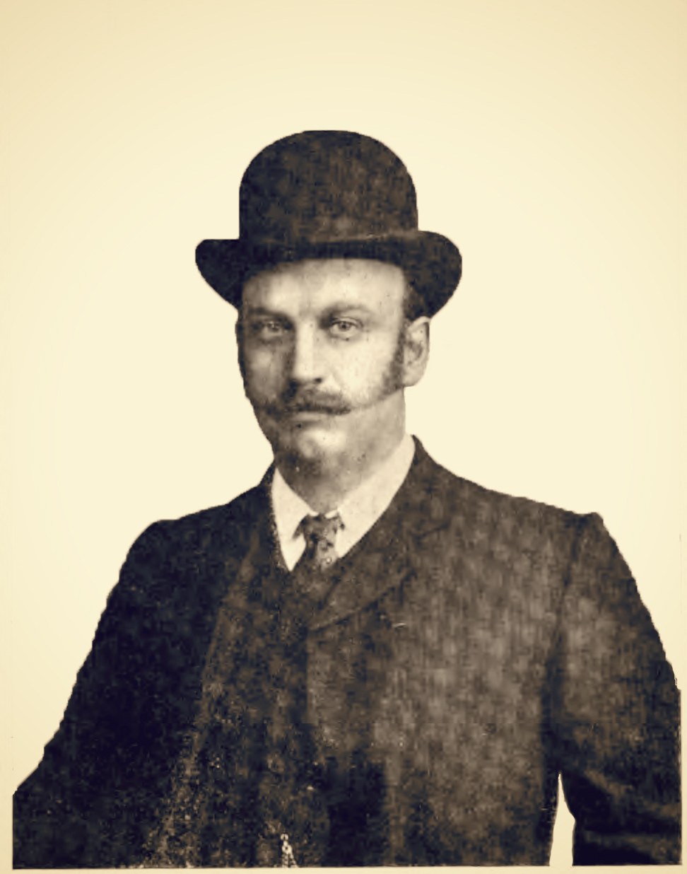 (head and shoulders portrait of)Mr H Austin, who has for so many years been associated with the Wolseley Tool and Motor Car Company, Limited, and who is starting new works, where he will manufacture Austin Cars, at Longbridge, near Birmingham